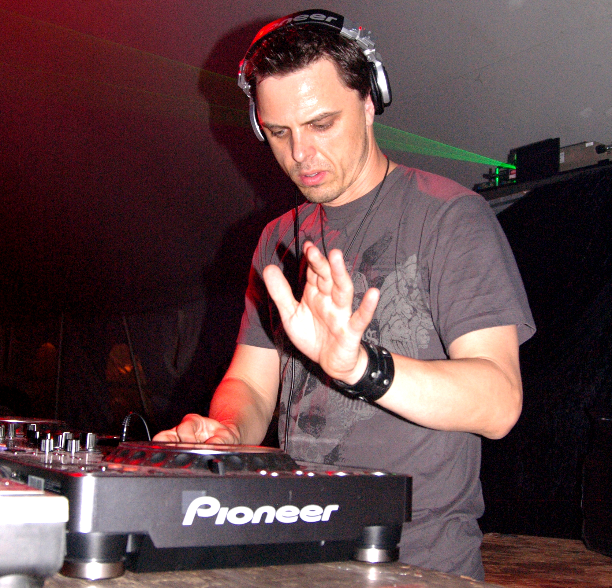 Markus Schulz performing at "America's Best DJ" event in Philly. © Floor van Herreweghe & DJ Times